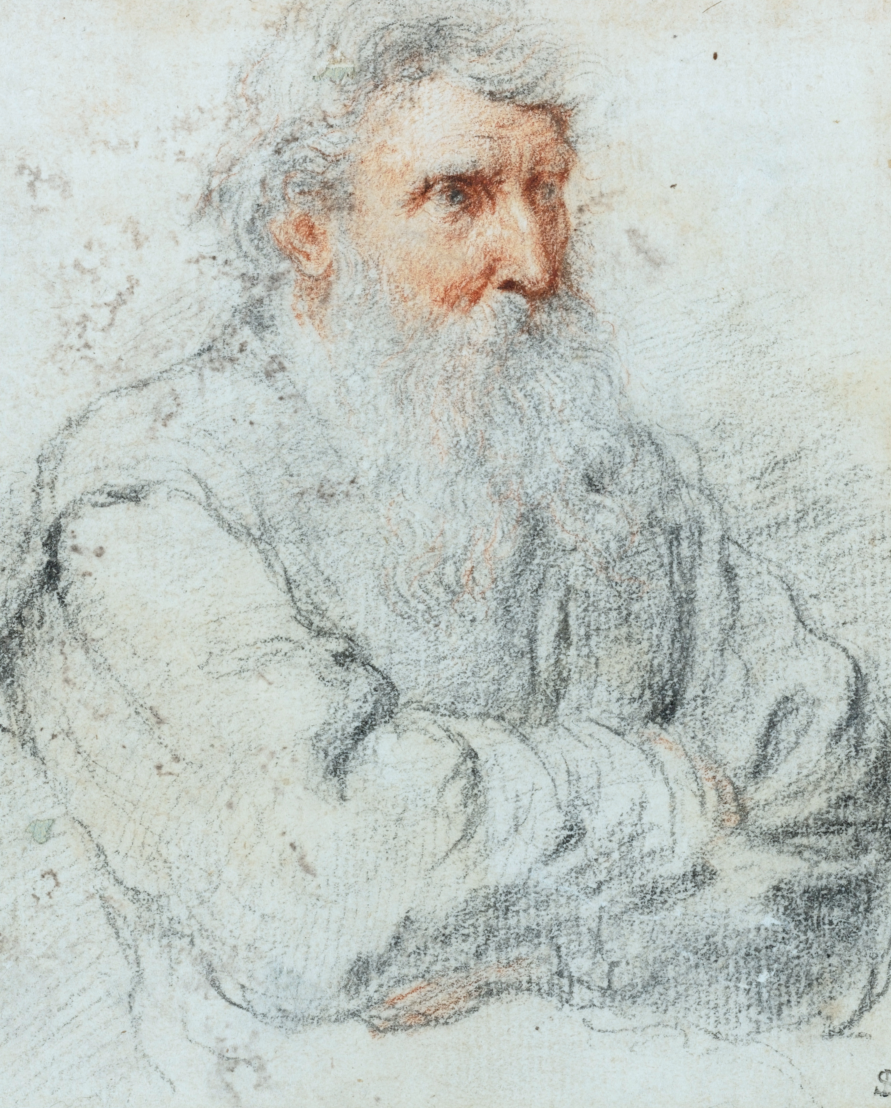 Erycius Putreanus aka Eerryk de Putte (1574 - 1646) black and red chalk, heightened with white 16 x 13 cm